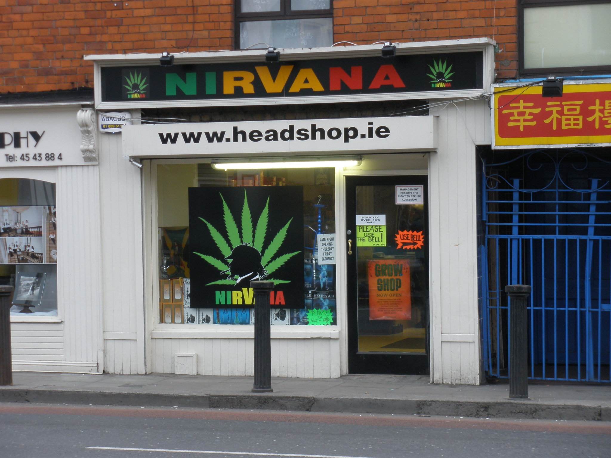 Head shop on Upper Clanbrassil Street, Dublin, Ireland.